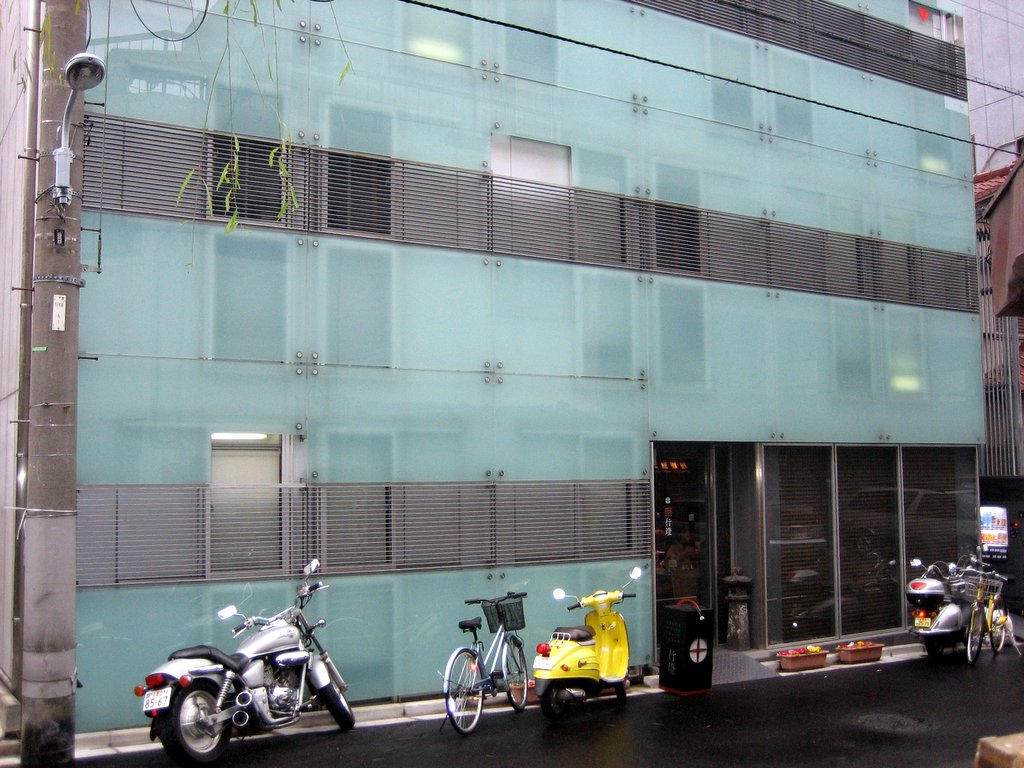 Andon Ryokan, a hostel in Tokyo, Japan. 行燈旅館、東京都台東区。